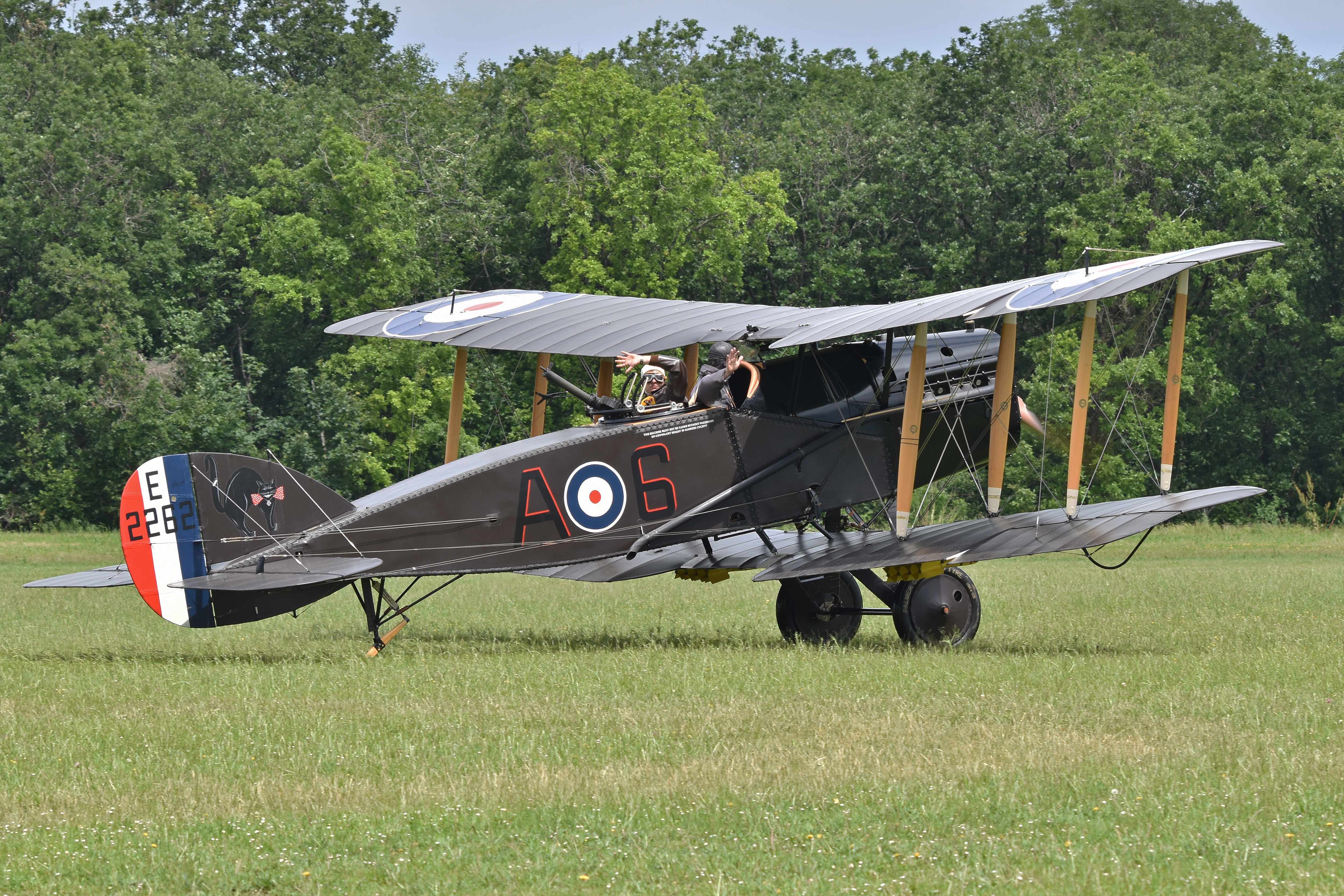 c/n C794 Rebuilt by The Vintage Aviator Ltd (TVAL) in New Zealand using one of four original fuselage frames found at Weston-on-the-Green, UK, during 1965. She was completed in 2014 and registered as ZK-VTV. Shipped to France and flew again there during 2015, now registered as F-AYBF. She is powered by a Hispano-Suiza engine instead of the more usual Rolls-Royce Falcon, which gives her a slightly different nose profile. She carries the markings of No39 (Home Defence) Sqn, Royal Flying Corps and is seen taxiing in after her display at the 2019 Fête Aérienne Le Temps Des helices (Aerial Festival – The Time of the Propellers). Aérodrome de Cerny-La-Ferté-Alais, Cerny, France 9th June 2019